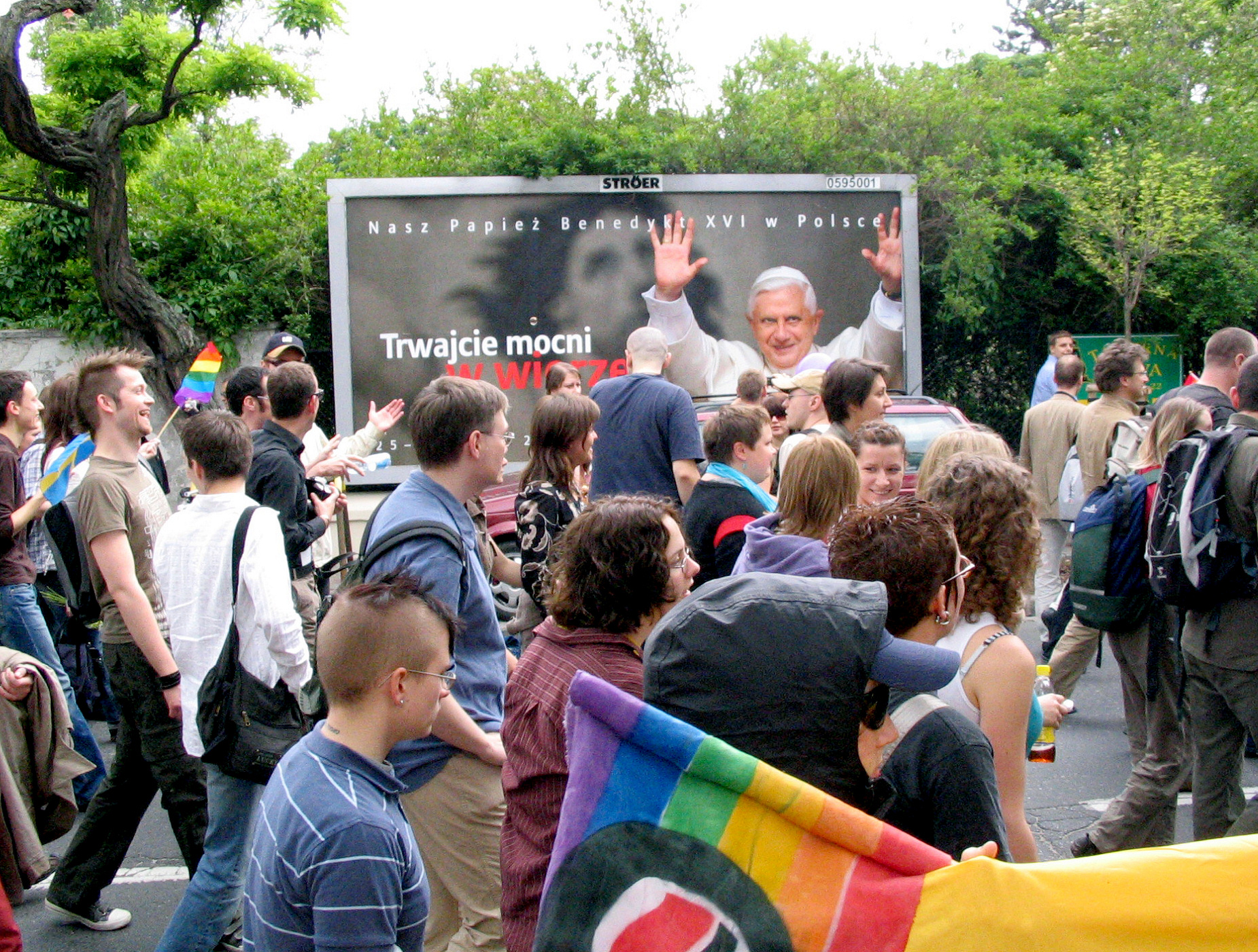 Parada Równości 2006 in Warsaw.